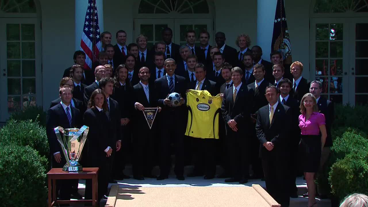 President Barack Obama welcomes the Columbus Crew, the 2008 Major League Soccer Champions, to the White House. Screenshot taken from official White House video.